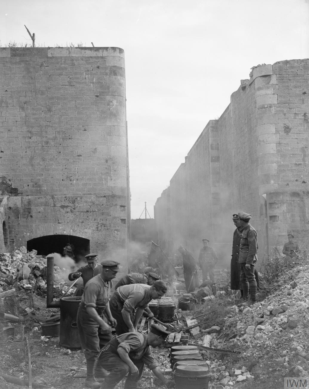 The Hundred Days Offensive, August-november 1918 Battle of the Canal du Nord. Cooks of the Liverpool Regiment at work in the basin of the Canal near a lock near Moeuvres, 28 September 1918.